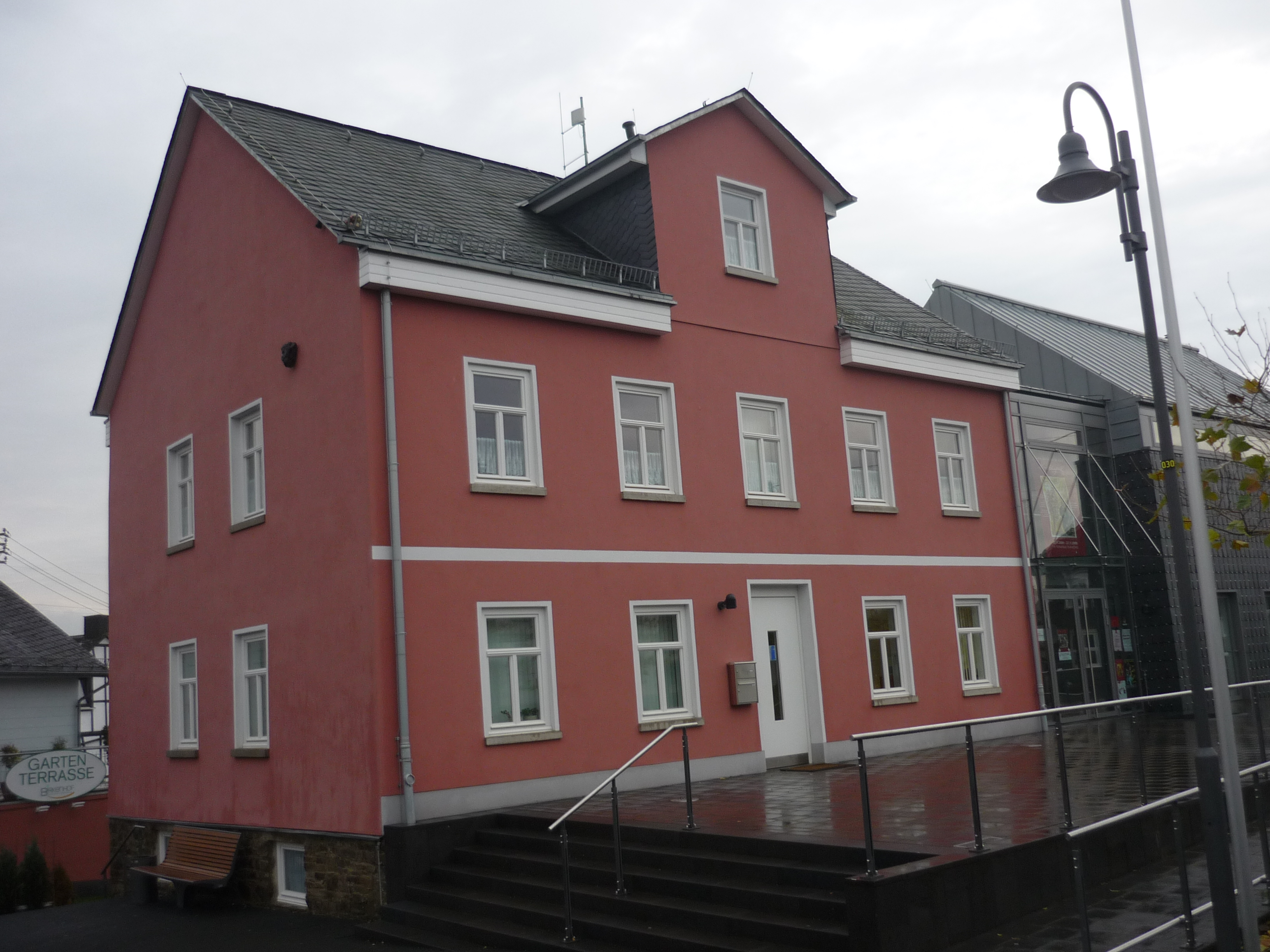 KulturHausHamm/Sieg 2009